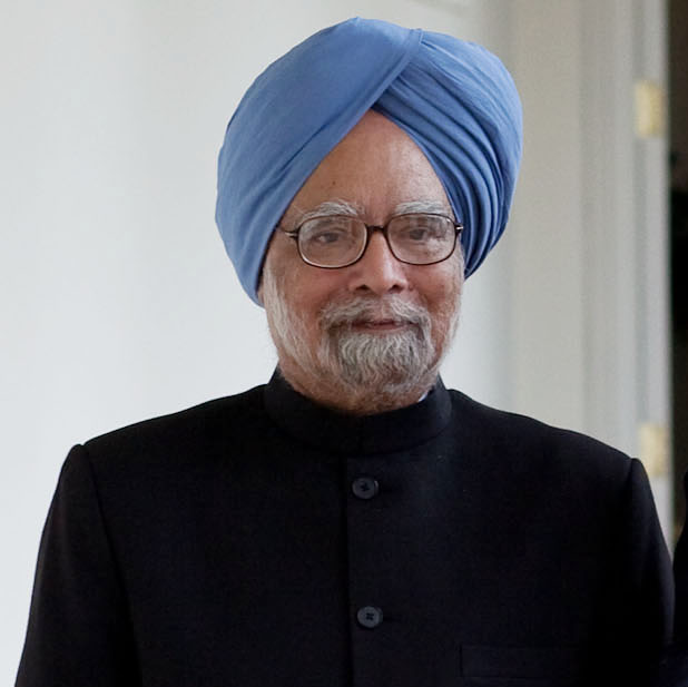 President Barack Obama escorts Prime Minister Manmohan Singh of India along the White House Colonnade to their meeting in the Oval Office, Nov. 24, 2009.